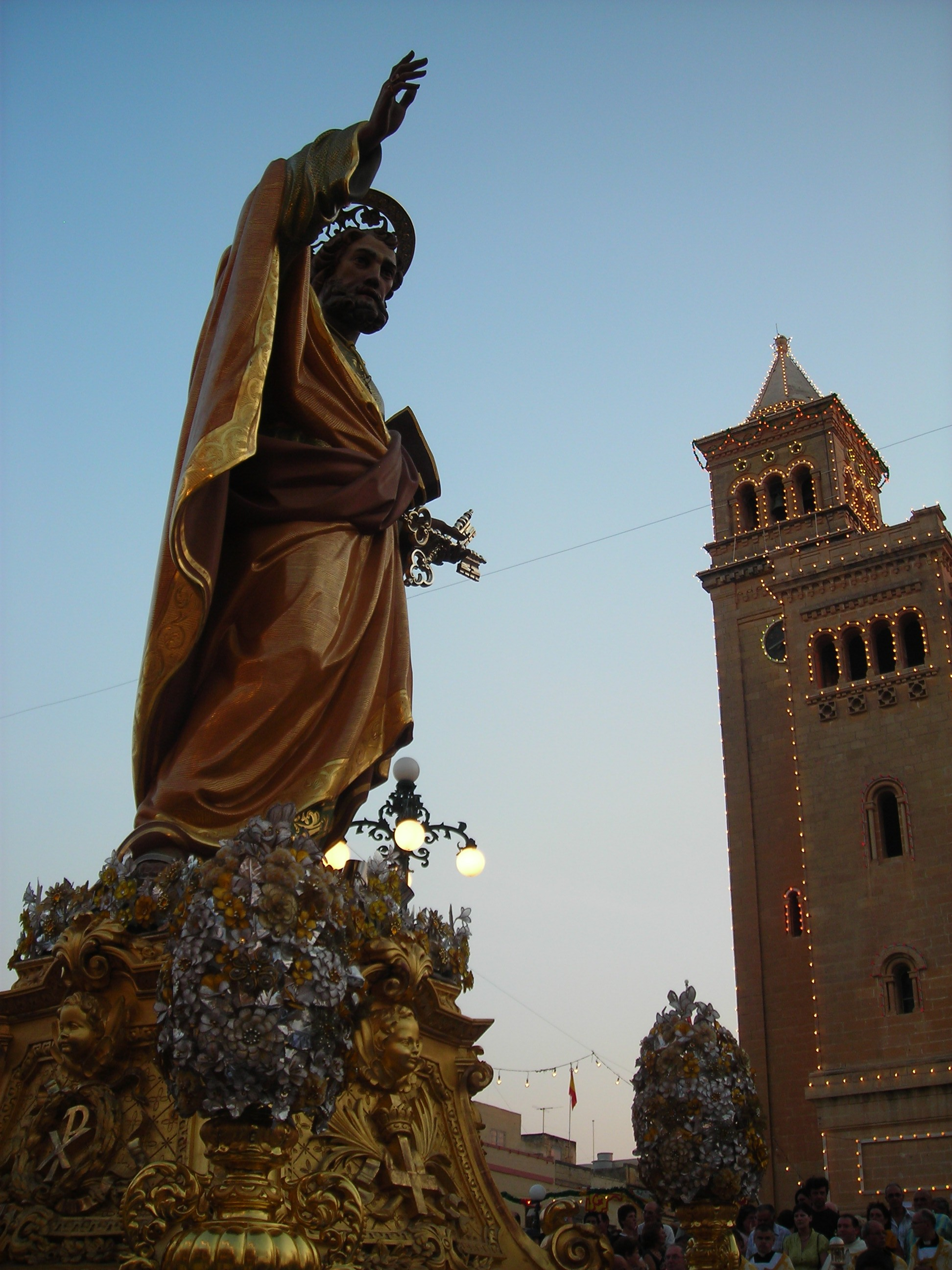 The statue of St. Petre in Chains at the Birzebbuga festa (Malta)